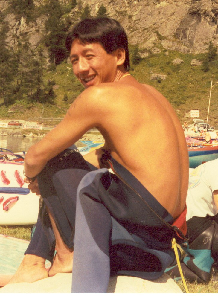 Kelly Chan sits and shares a joke while waiting for the wind to fill in during the 1986 World Championships (Mistral One Design) on Lake Silvaplana, Switzerland Photo Credit (c) Francesca Vincenti, Malta. MIstral Freestyle World Champion 1986